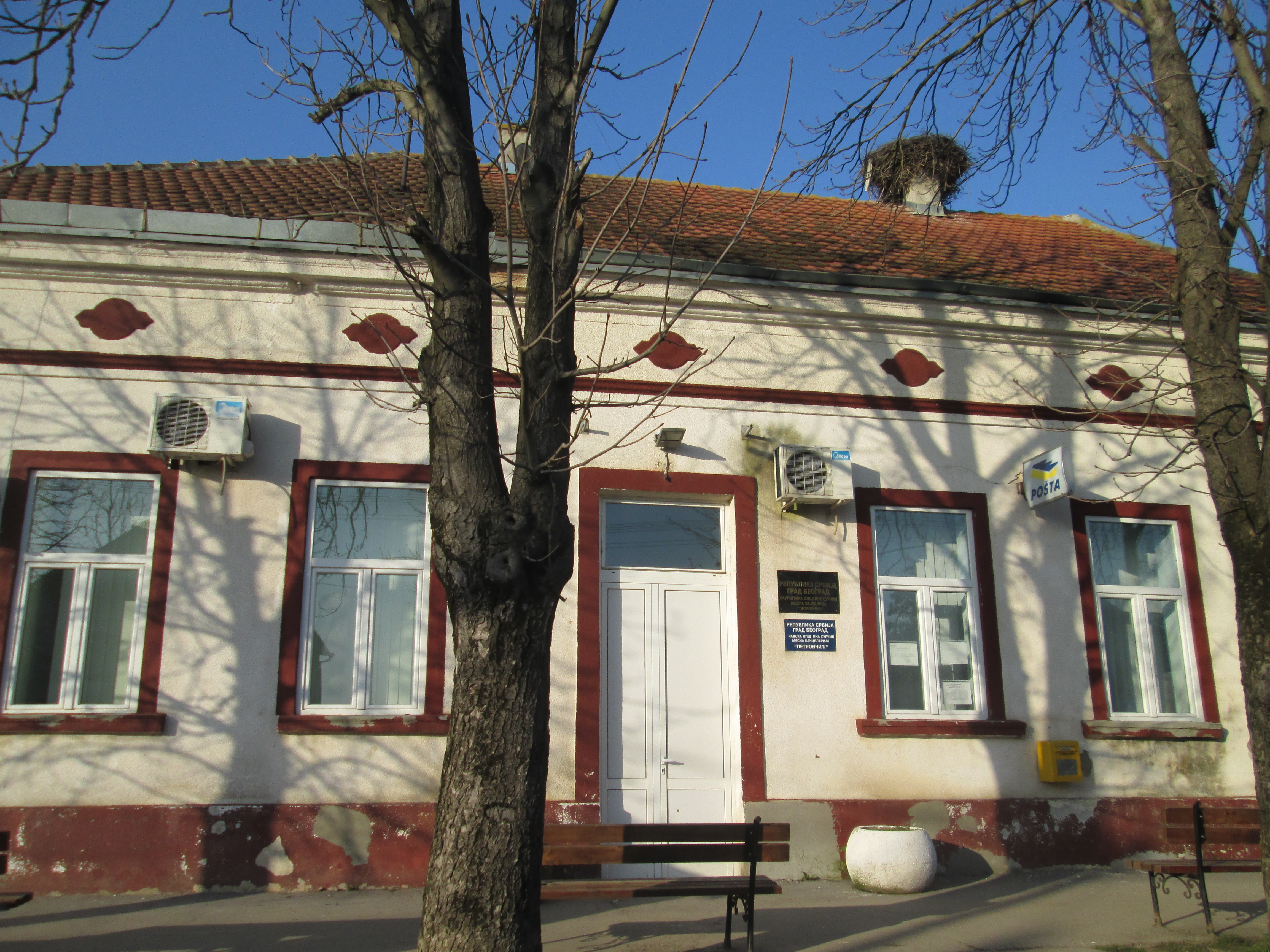 Community Center in Petrovčić Српски (ћирилица): Месна заједница у Петровчићу